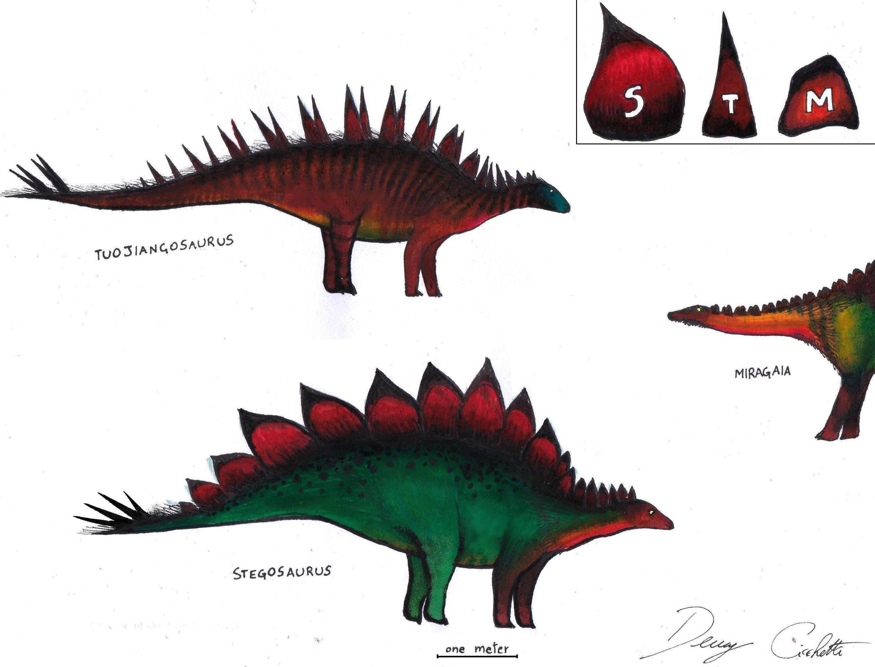 Comparison among three well-known stegosaurids